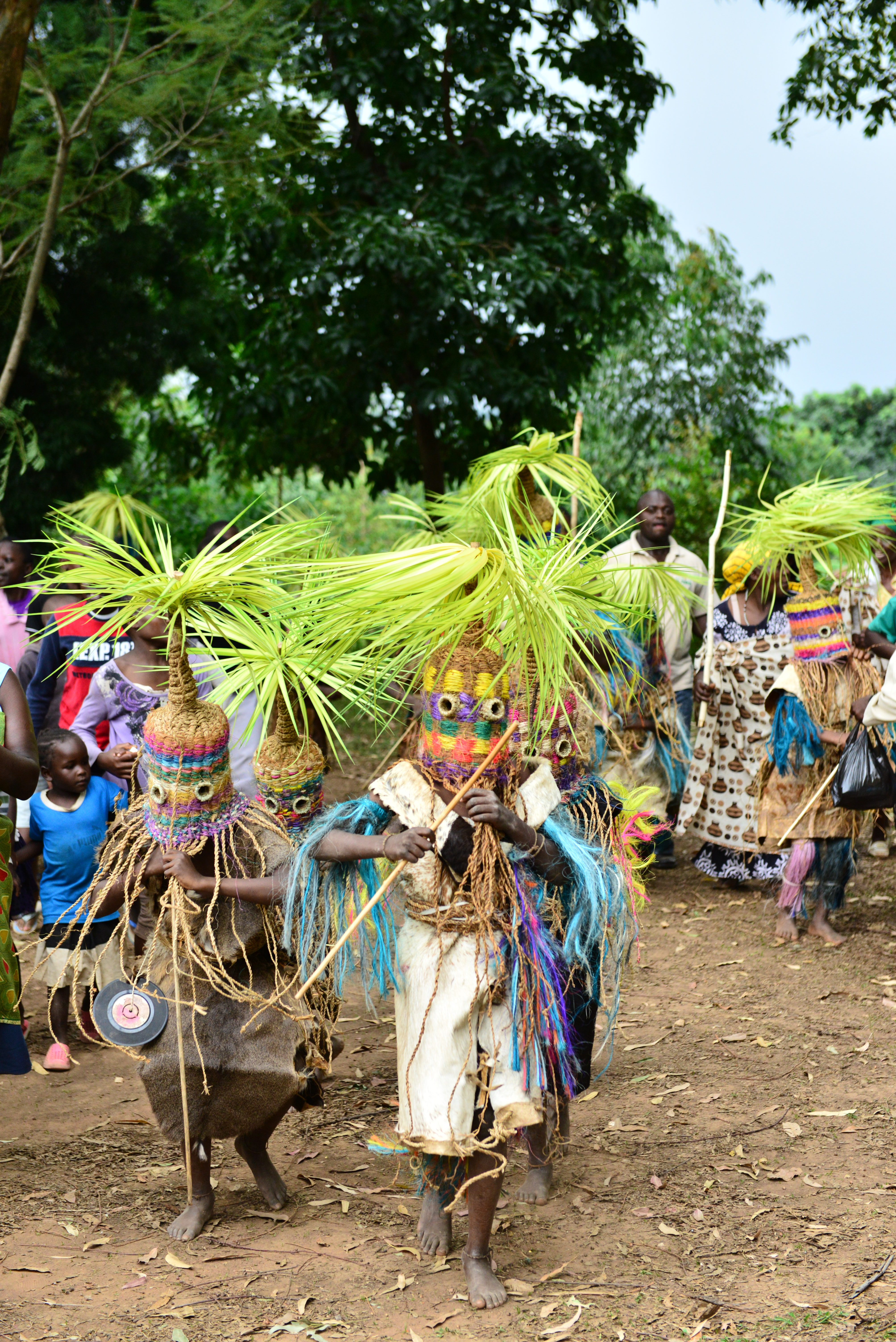 Boys from the Tiriki community of Western Kenya in traditional masks and animal hide ceremonial regalia after undergoing initiation into adulthood by circumcision and living in seclusion for four weeks This is an image of Cultural Fashion or Adornment from Kenya